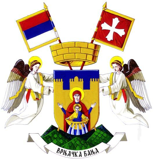 Coat of arms of Vrnjacka Banja.